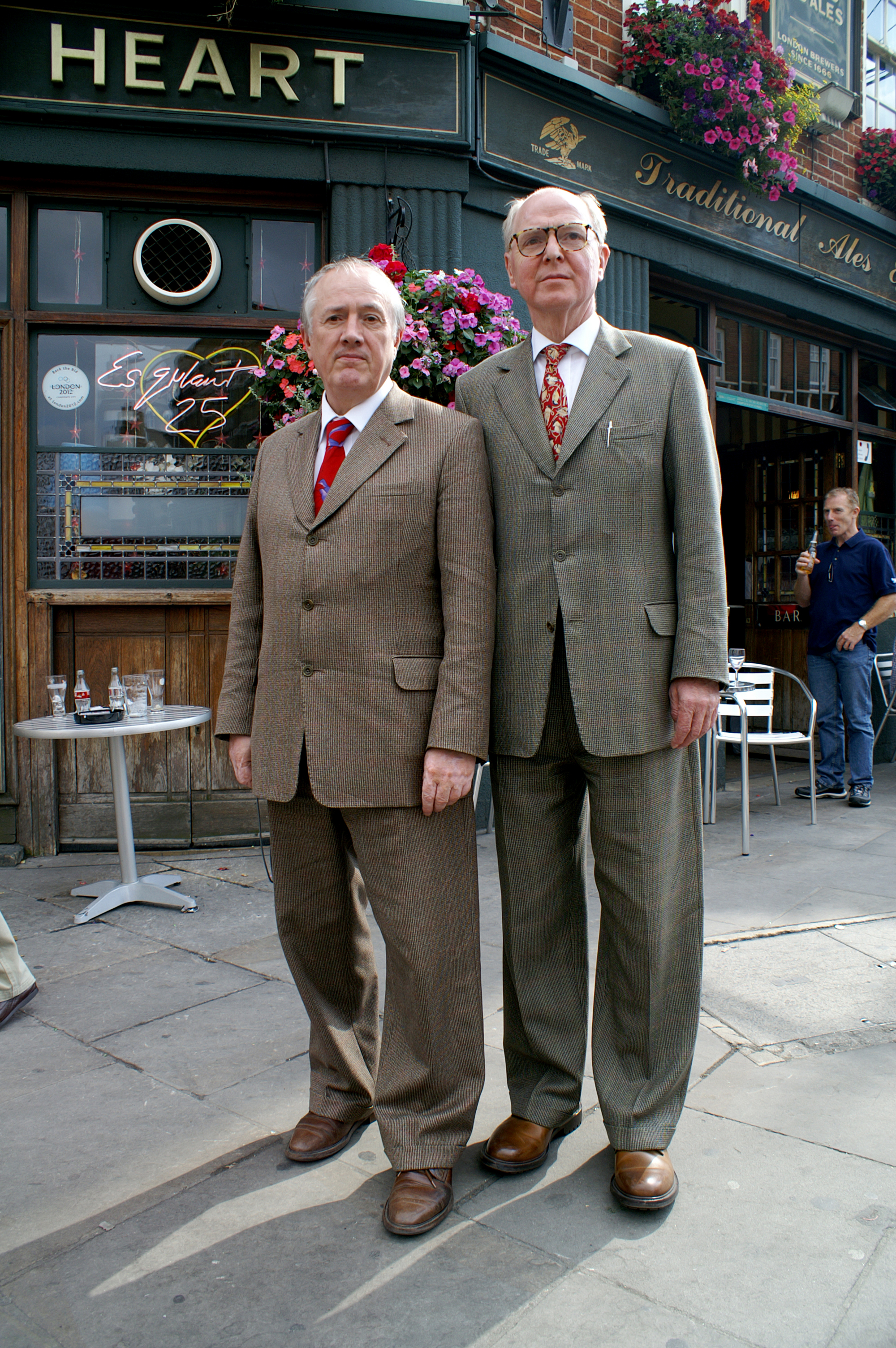 Gilbert & George posing for a shot in Hanbury Street, London, in 2007.